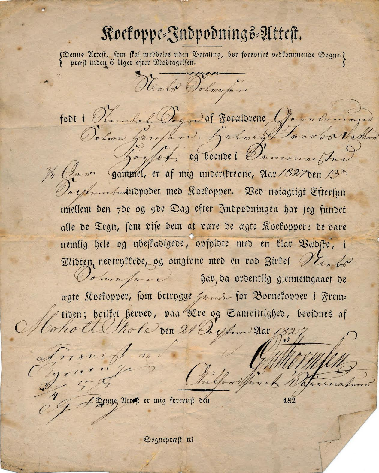 Vaccine certificate from 1827, smallpox vaccine.